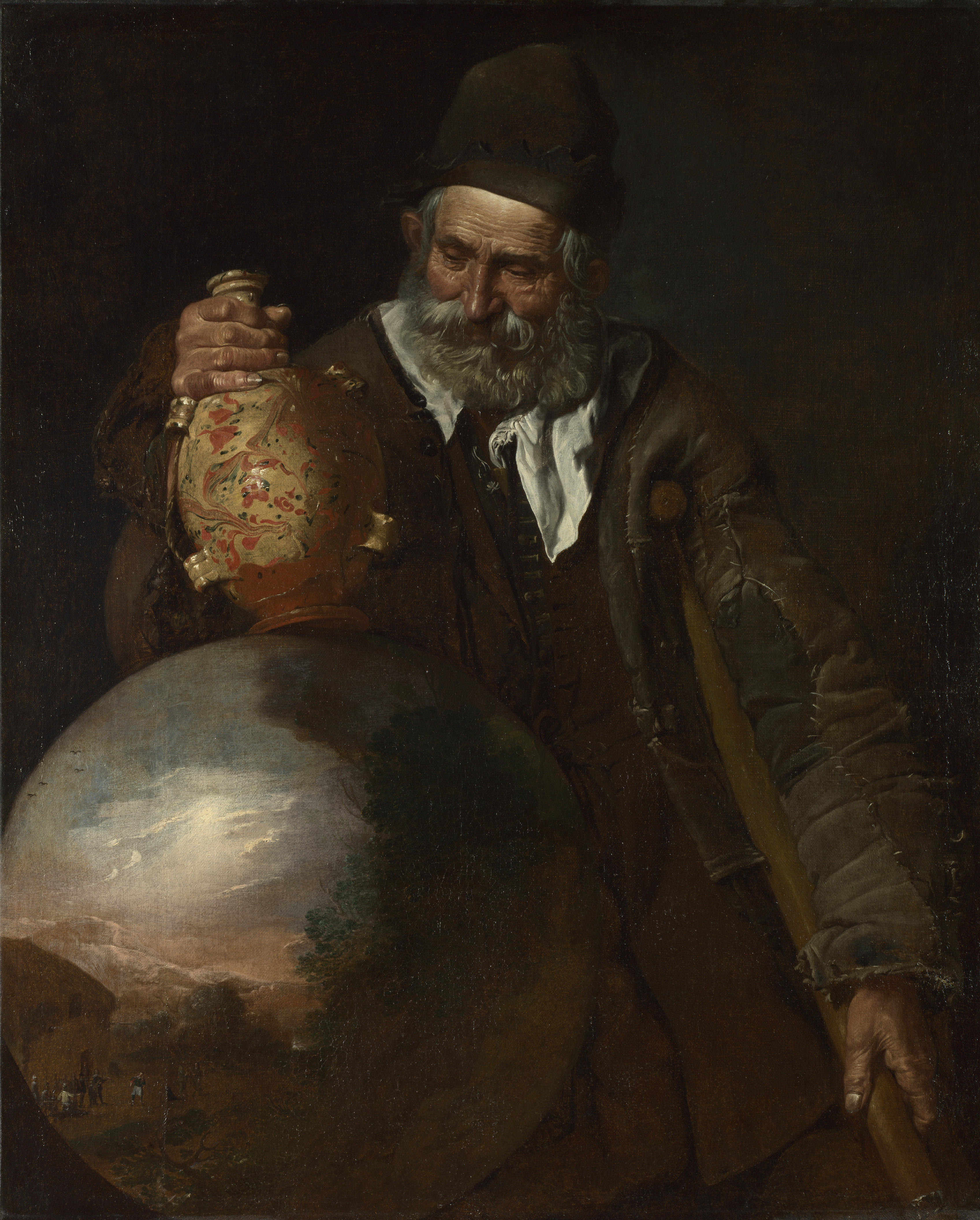 The subject may be the Greek philosopher Democritus, who is often shown grinning, worldly wise, at a globe that represents the world.